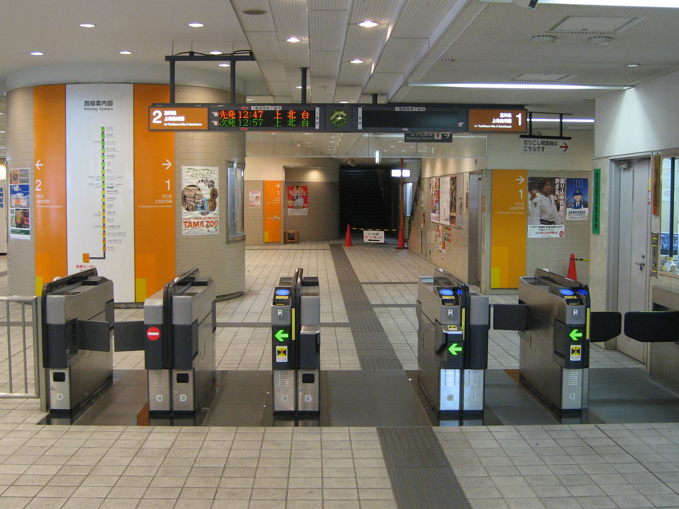 Gate of Tama Station of Tama Toshi Monorail Line in Tama, Tokyo, Japan.